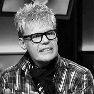 Ad Visser